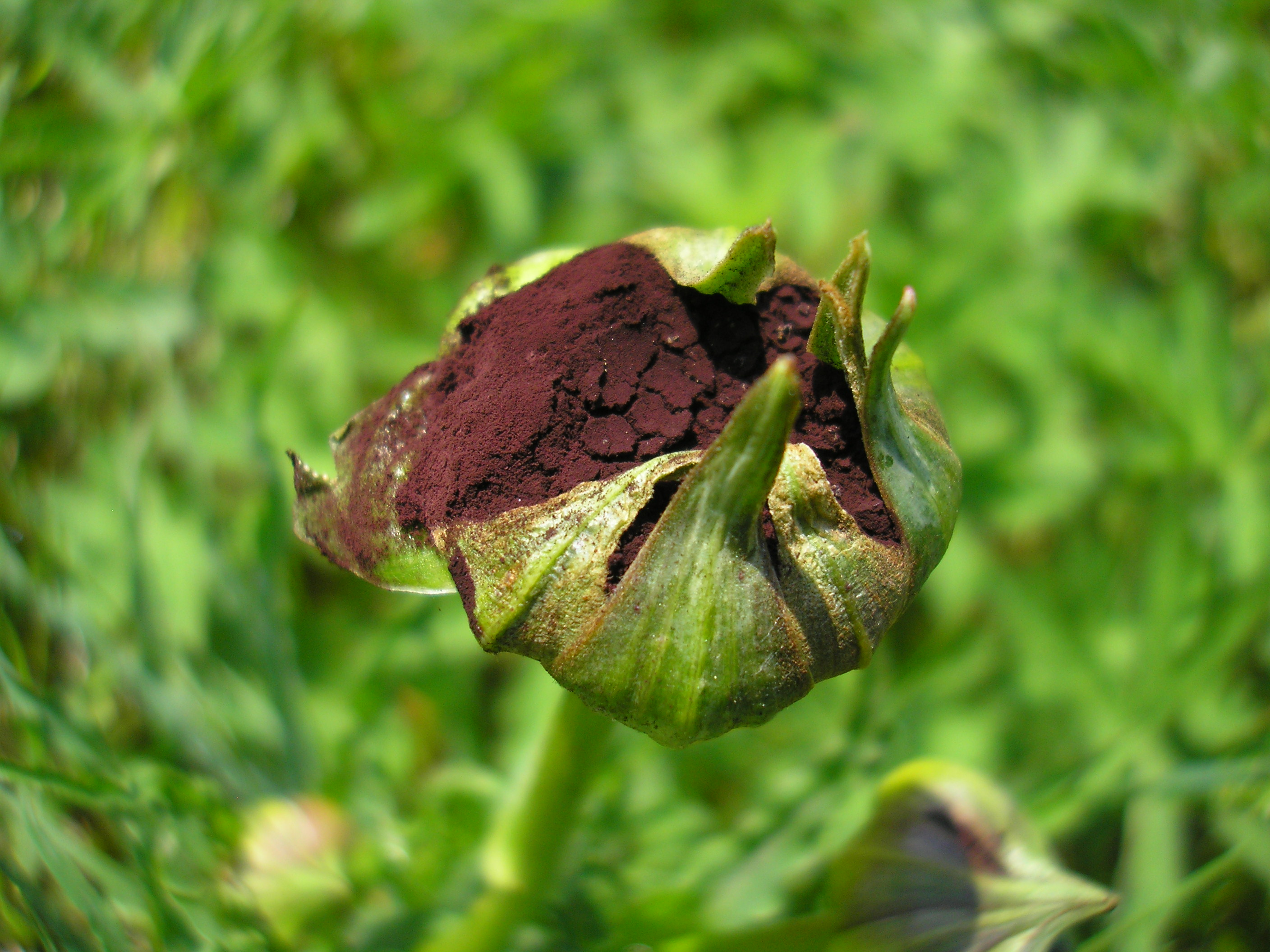 Smut fungi Microbotryum tragopogonis-pratensis on Tragopogon pratensis